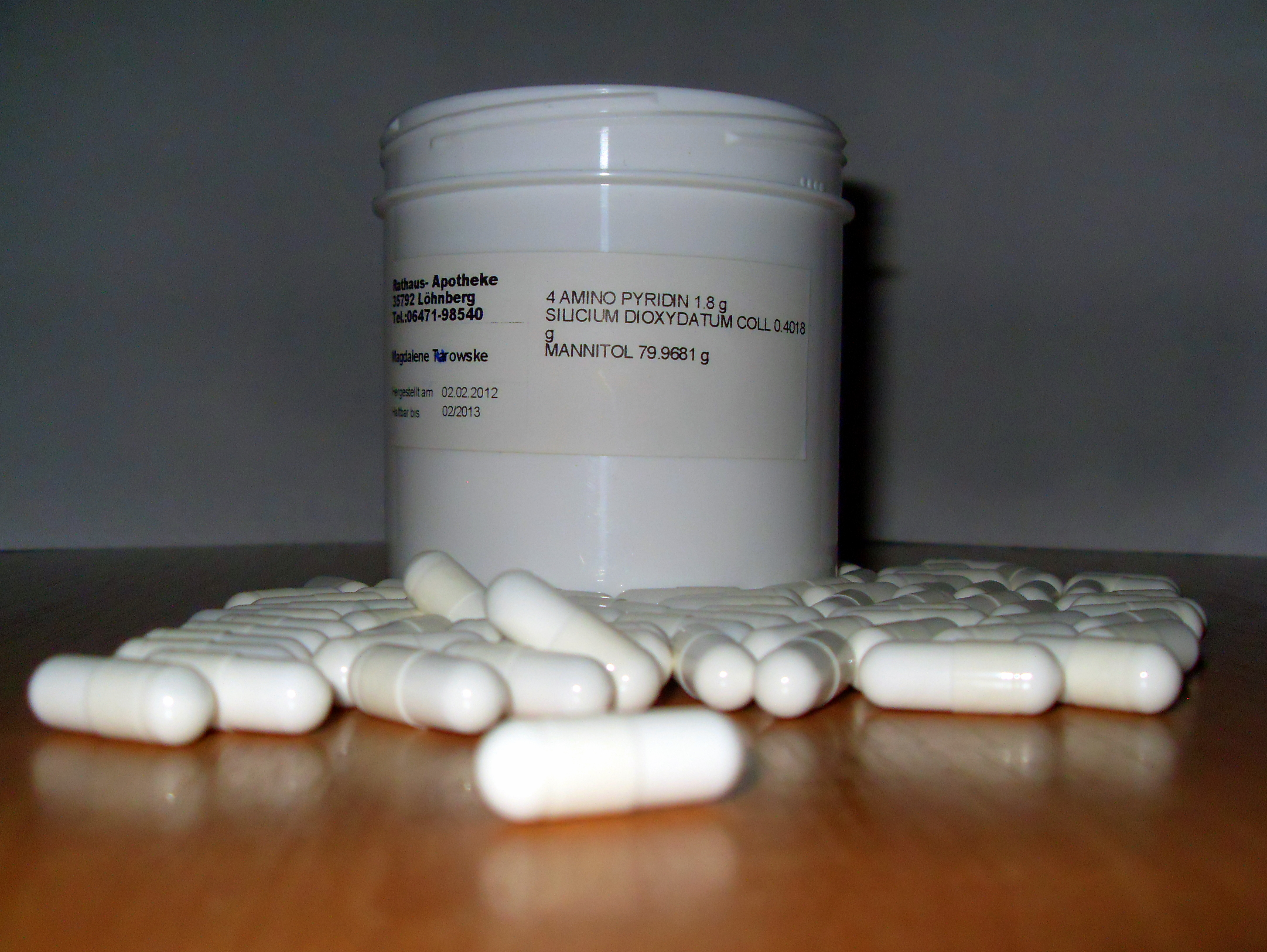 4-aminopyridyne